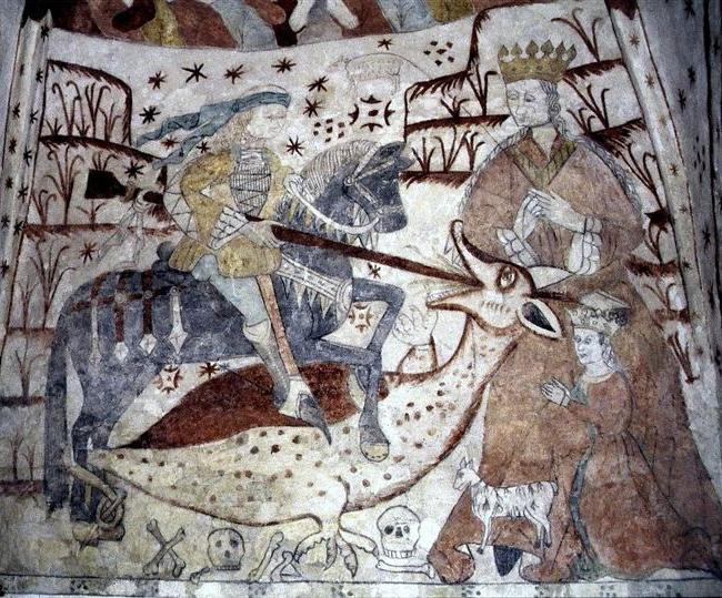 Frescos in Bellinge Kirke